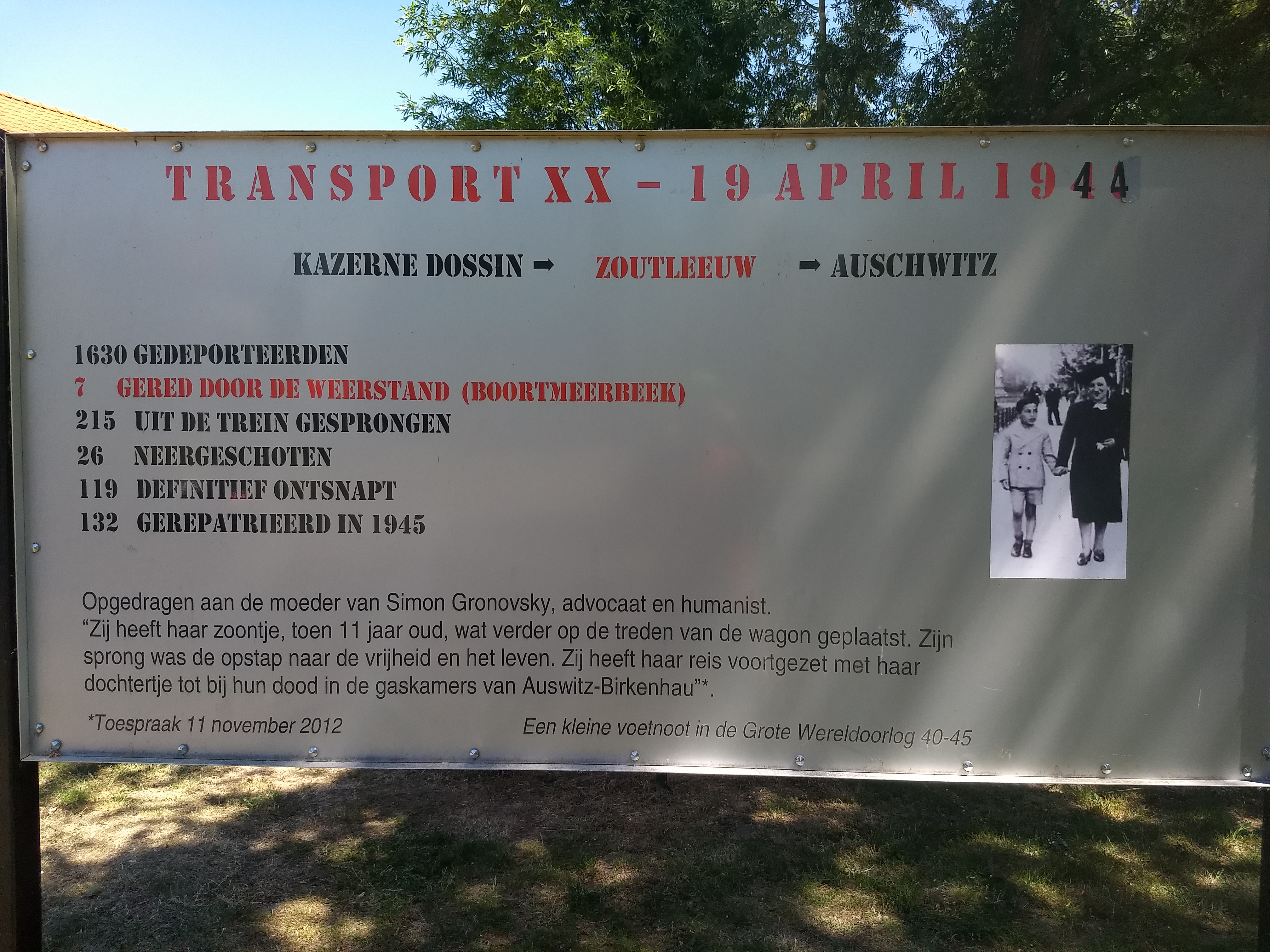 This photo taken 2020-05-28 of a board commemorating Transport XX stands near the location of the old railway station in Zoutleeuw, Belgium, on what is now a cycle route. Relevant to Simon Gronowski. The date has been altered from the correct original 1943 to 1944, which is in error.